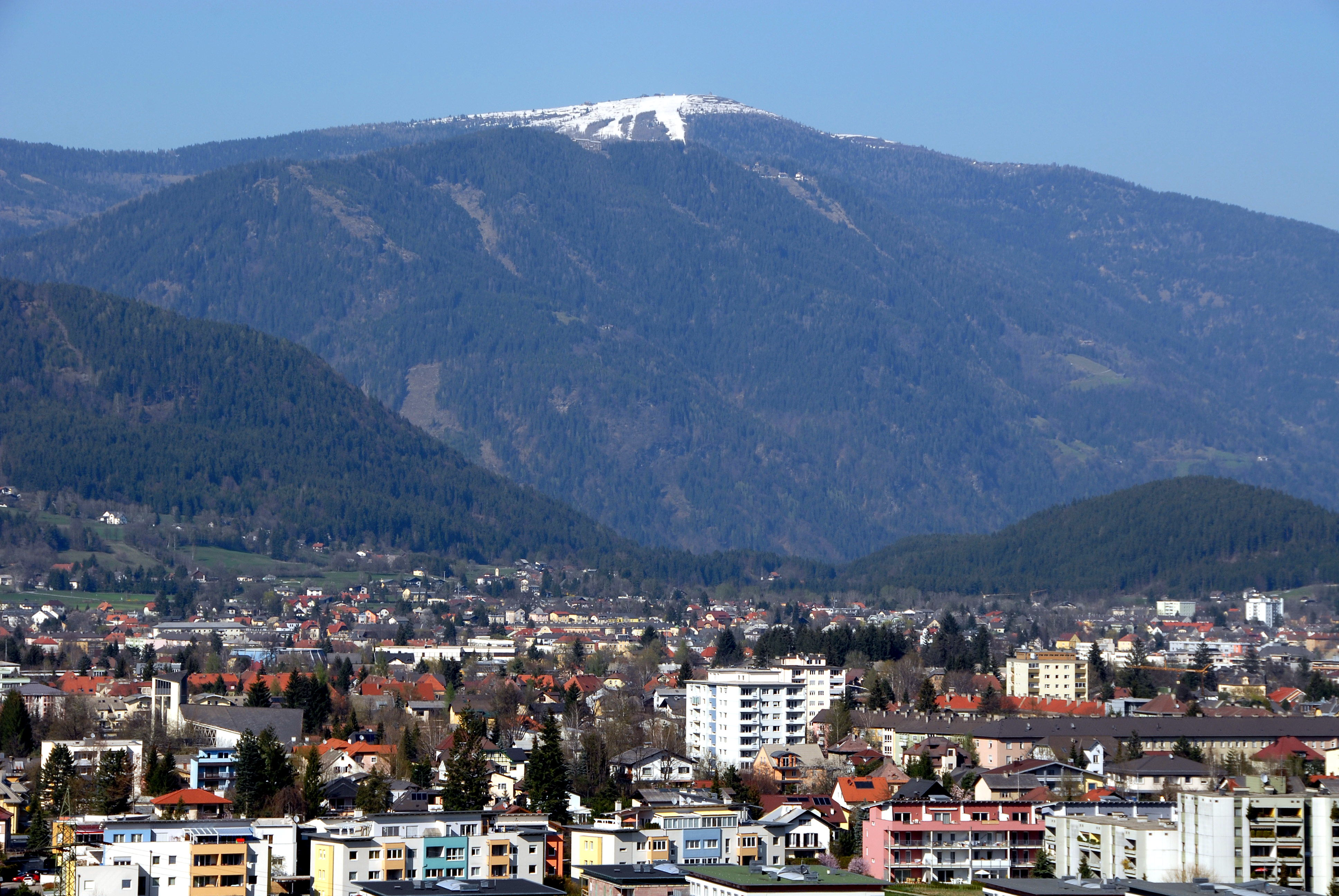 View over Villach with the Gerlitzen mountain behind, Carinthia, Austria